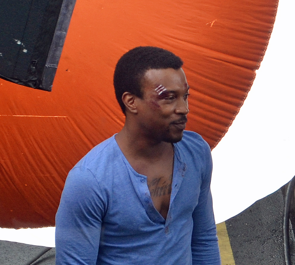 Ashley Walters filming Truckers in 2013